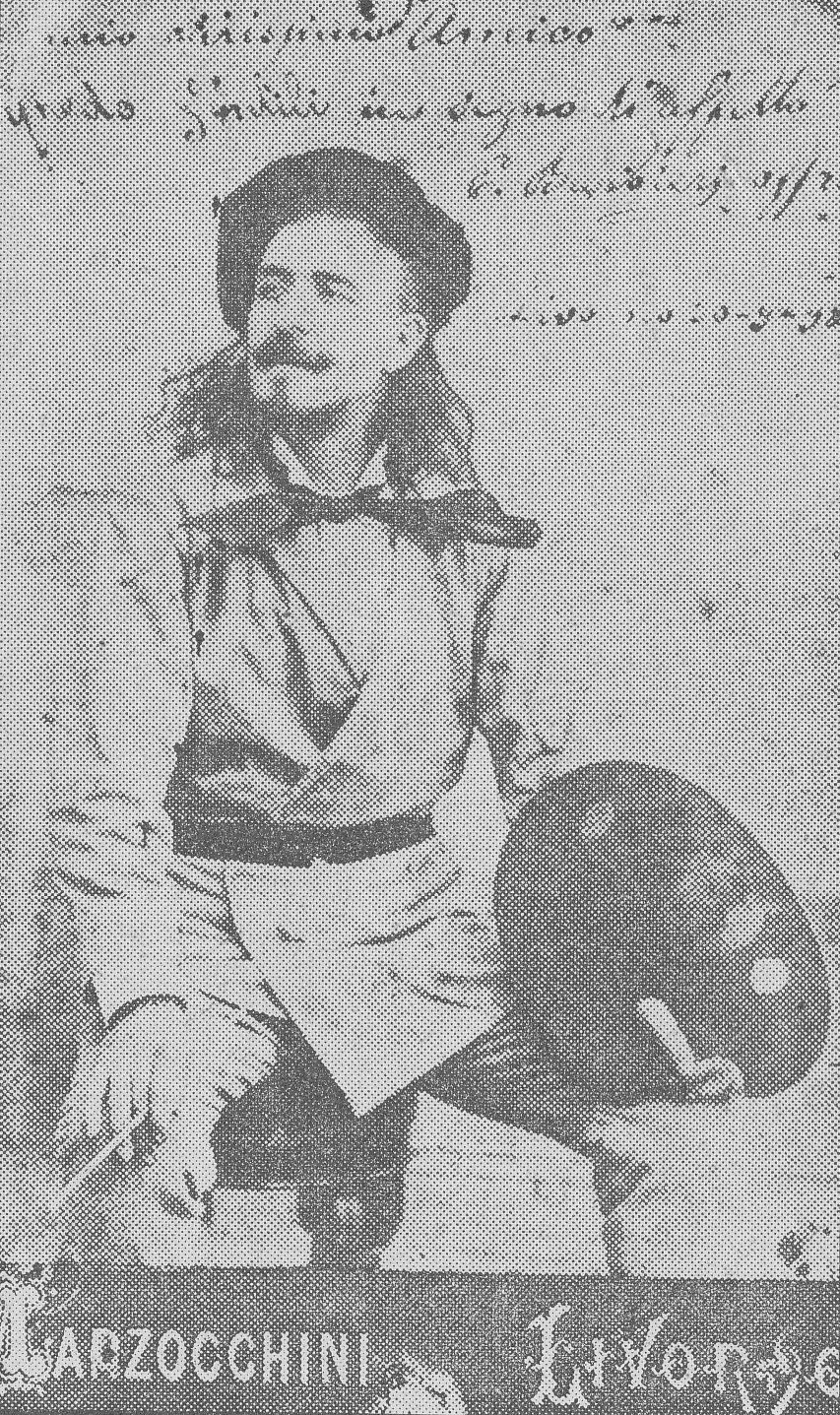 Italian baritone, Emilio Barbieri (1848-1899).